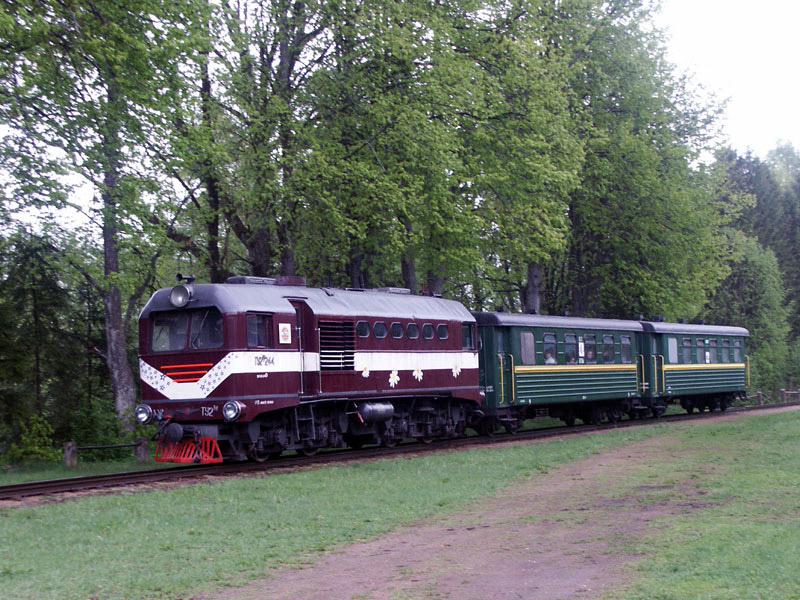 Narrow gauge railway in Aluksne, Latvia